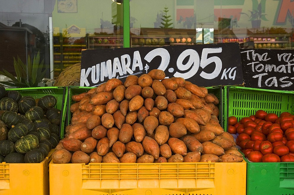 Kumara for sale, Thames, The North Island, New Zealand.